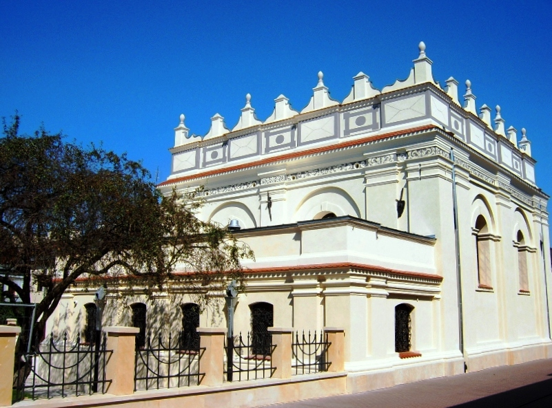 Repairs of synagogue in Zamość (August 2010)